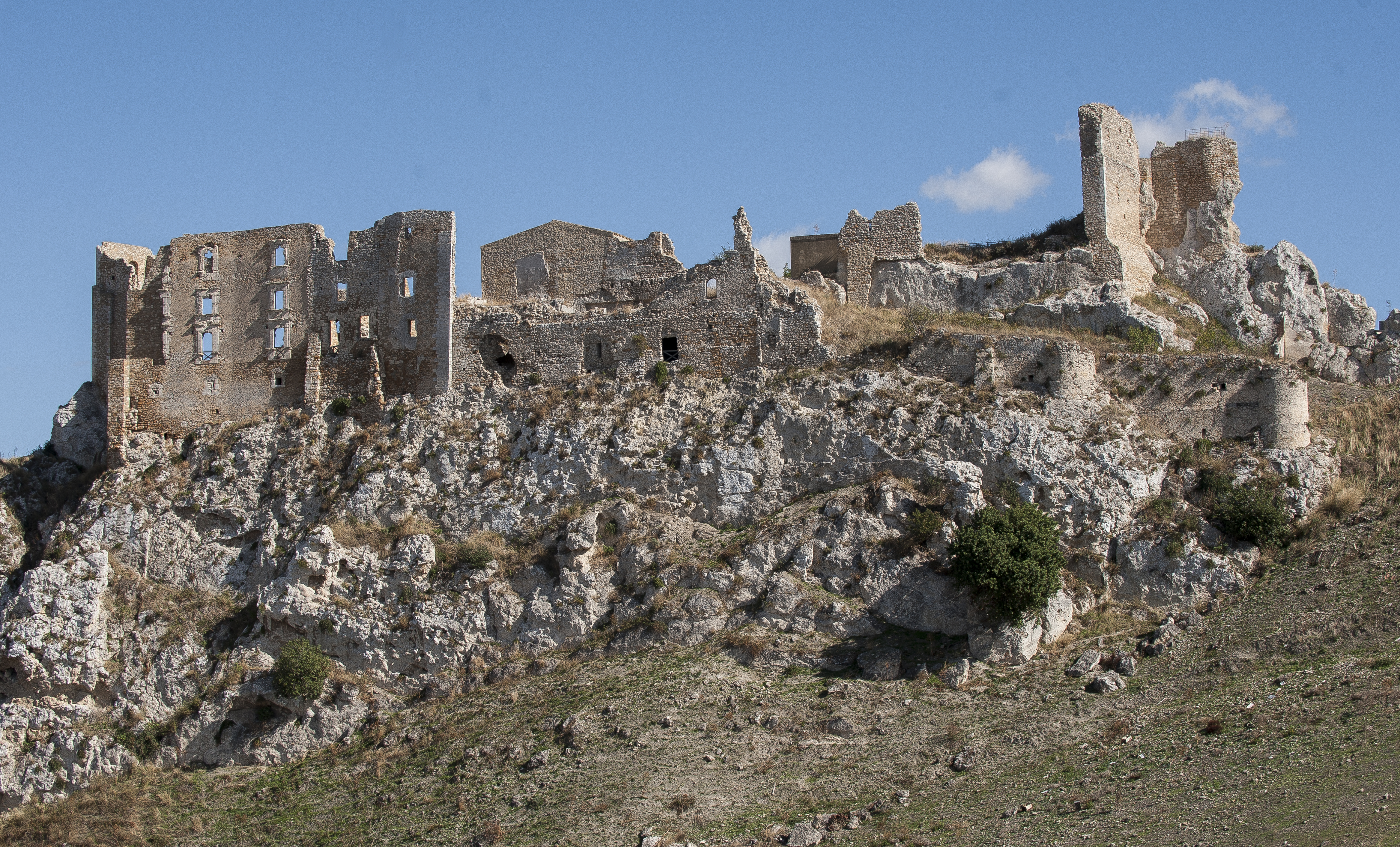 Castello di Pietraperzia - Enna - Sicilia